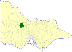 Location of the Shire of Korong within Victoria.